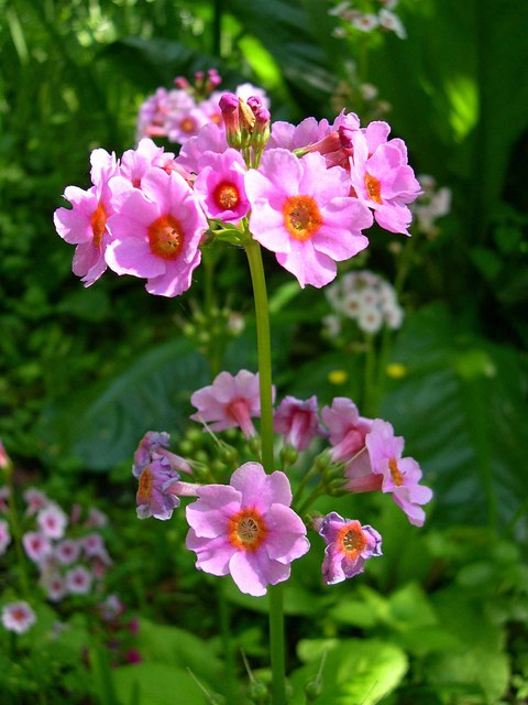 Fairhaven Water Gardens 2 A close up of one of the Candelabra Primulas